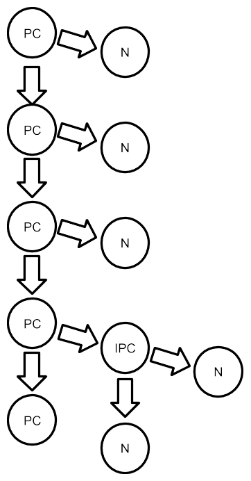 An example of the lineage of a progenitor cell which produces an intermediate progenitor cell. PC: Progenitor Cell N: Neuron IPC: Intermediate Progenitor Cell